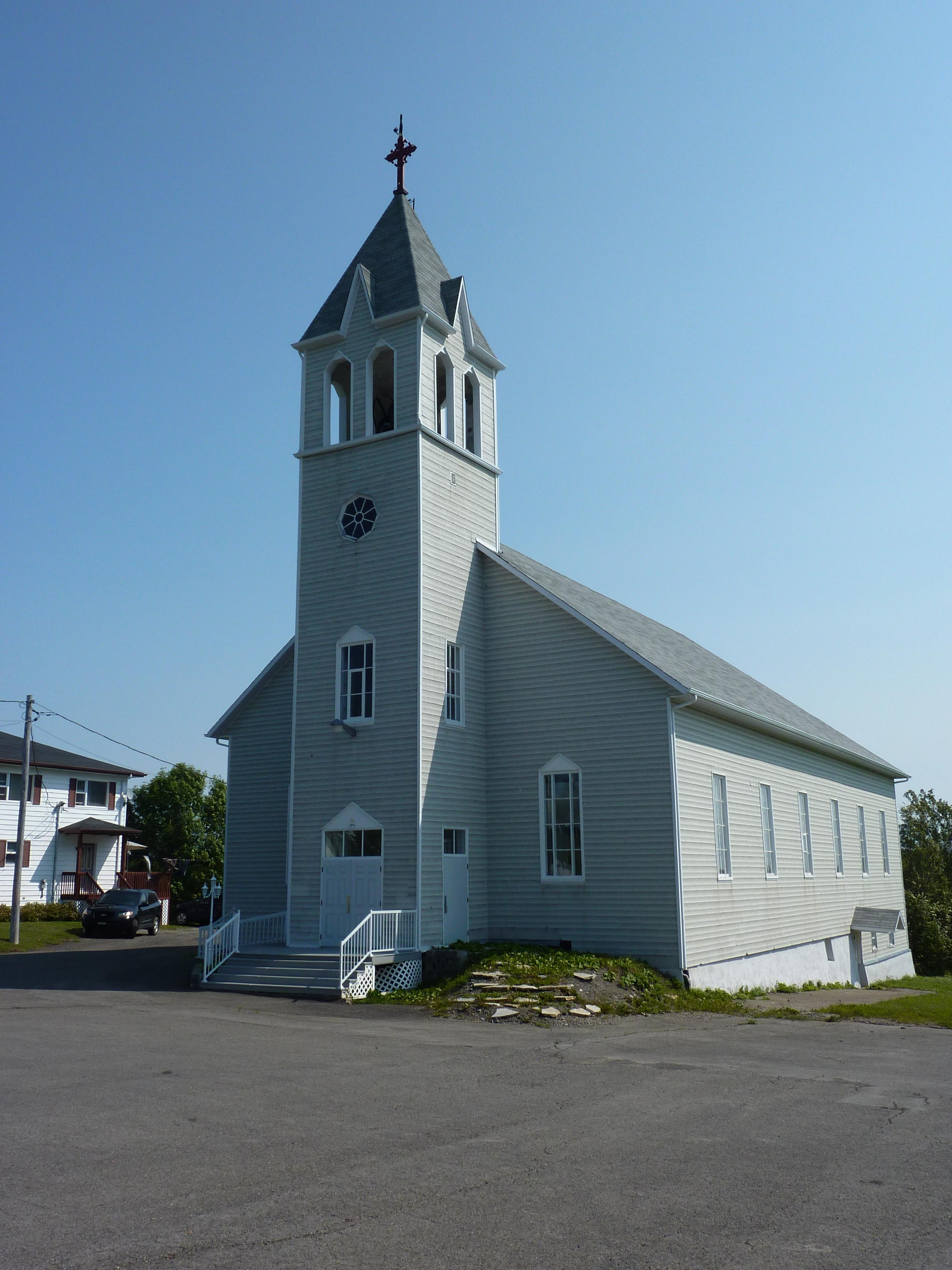 Sainte-Paule's Church, qc